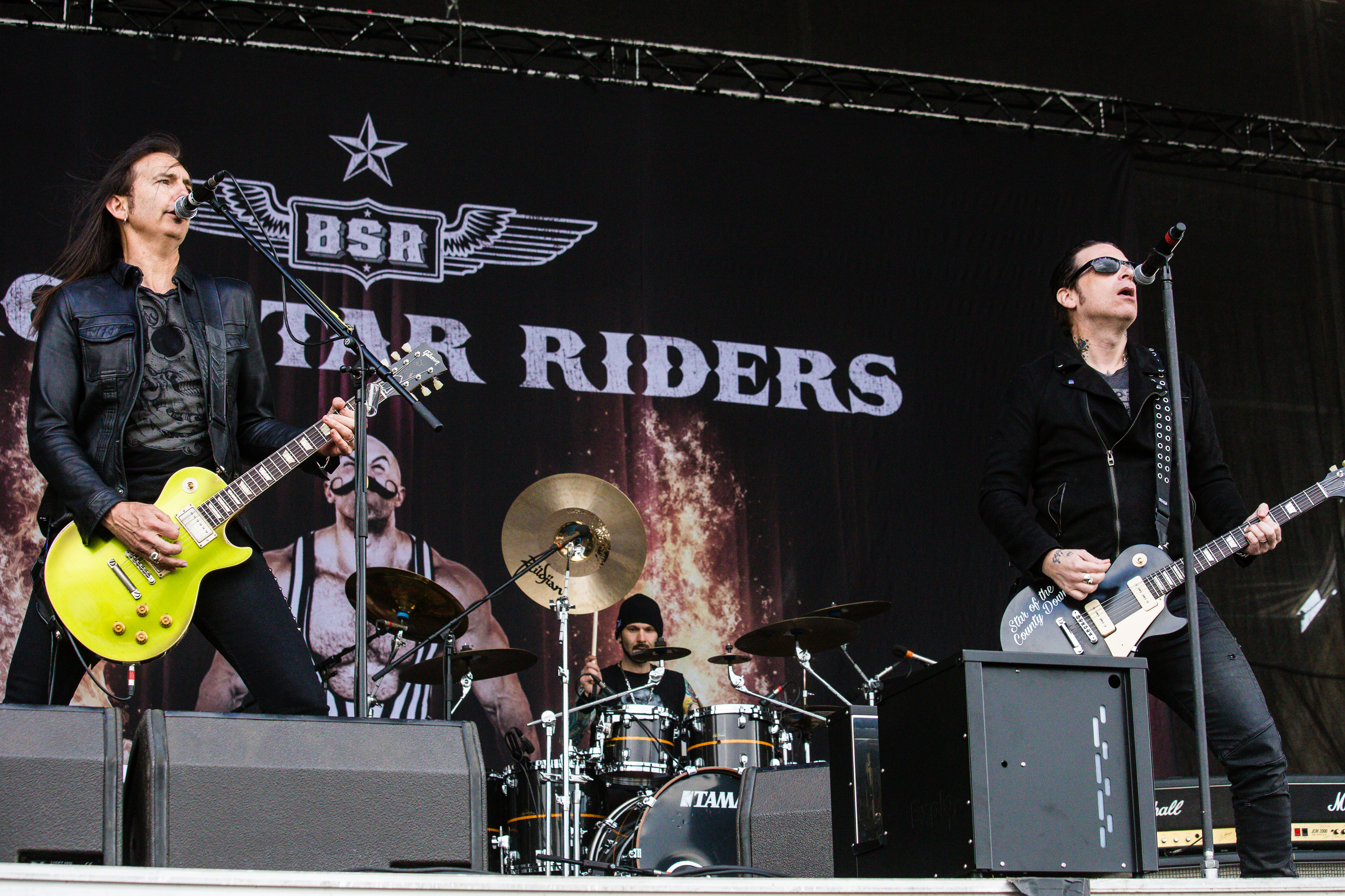 Nova Rock 2017 Damon Johnson and Ricky Warwick from Black Star Riders at the Nova Rock 2017